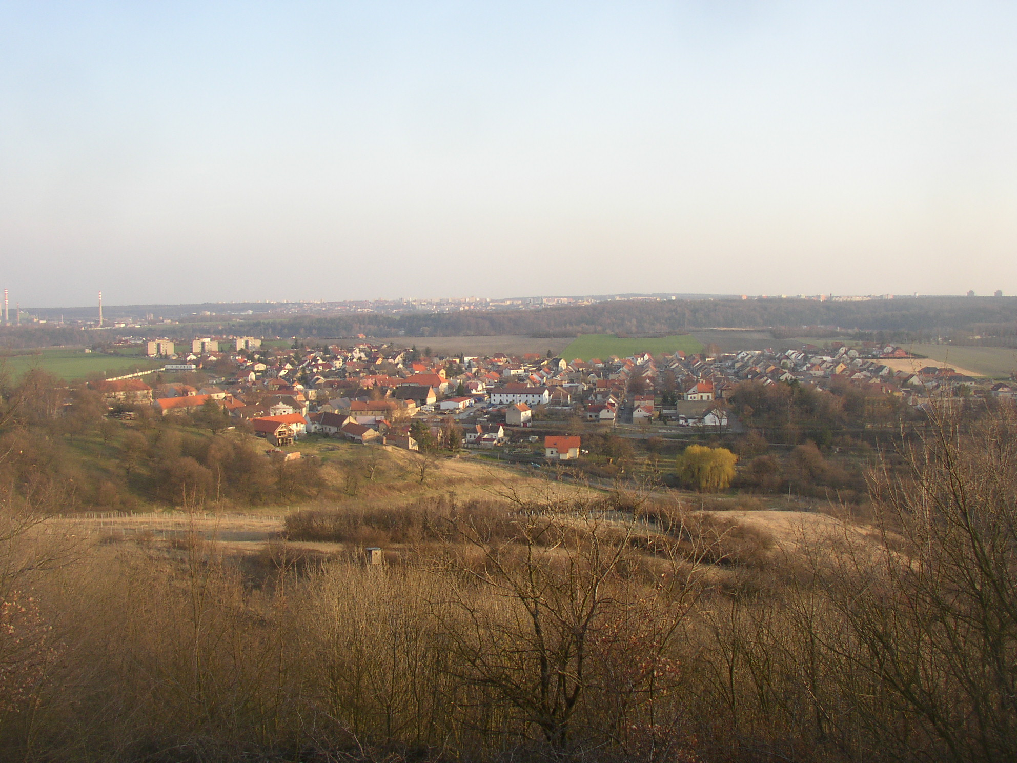 Village of Vinařice, Kladno District, Czech Republic as seen from the north, from southern summit of the Vinařická hora hill. City of Kladno can be seen on the whole horizon.